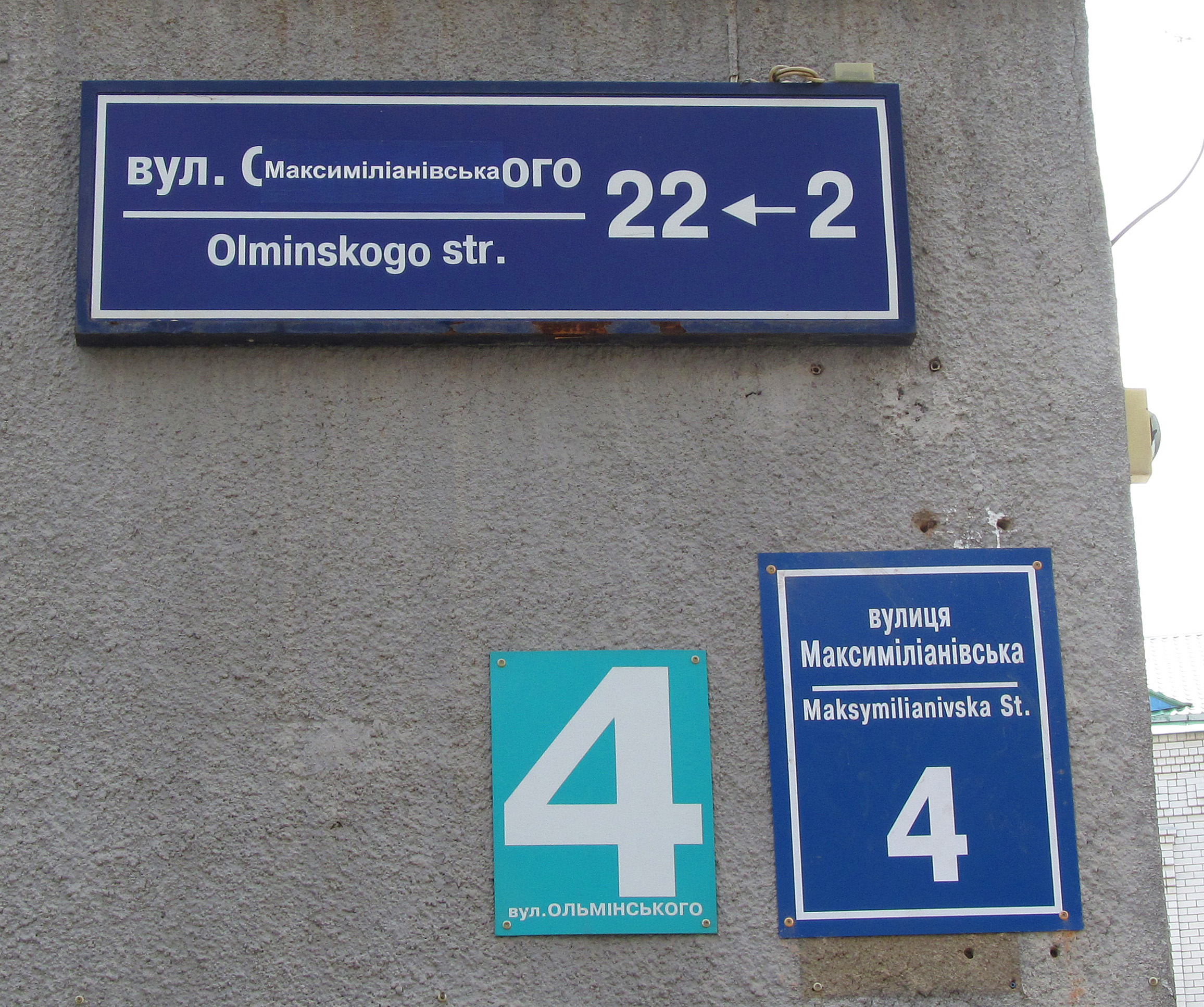 Maksymilianivska Street, Kharkiv, Ukraine. Plaques with new and old name.